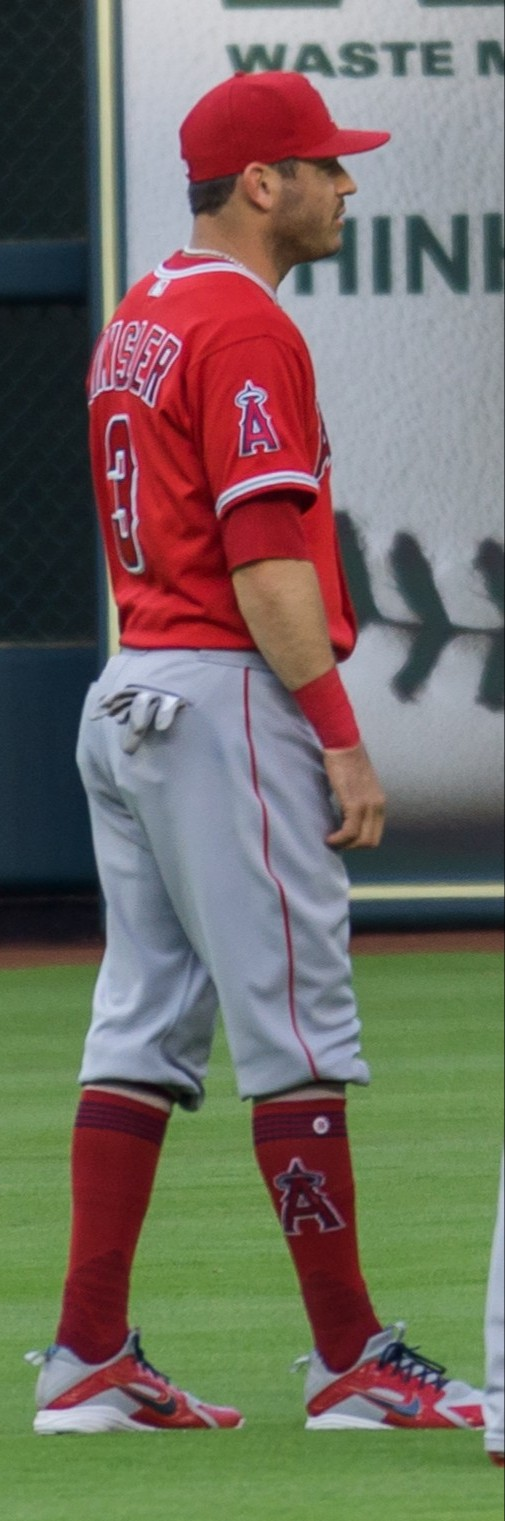 Astros vs Angels